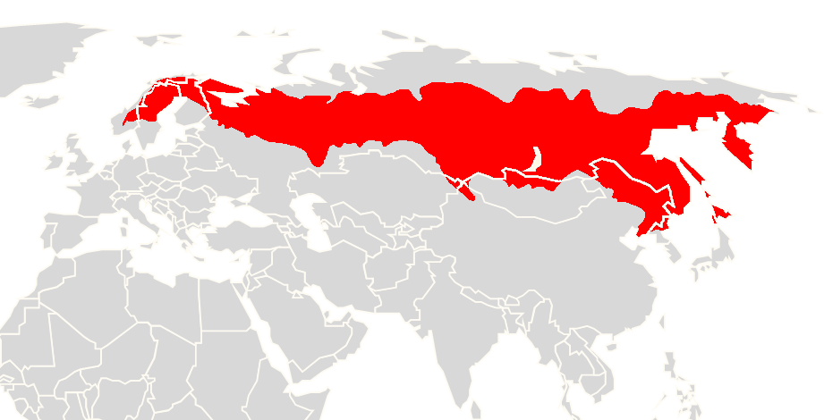 Grey Red-backed Vole (Myodes rufocanus), range map, depending on the range map at IUCN red list